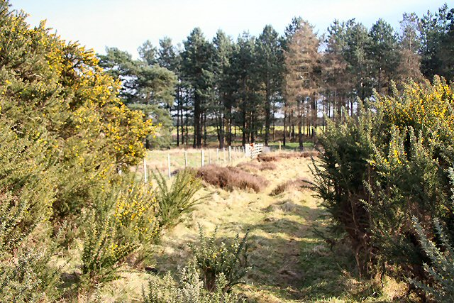 Gorse on Weather Heath Much of Weather Heath is covered with heather and gorse. This photo looks east towards the boundary with Larling Heath.